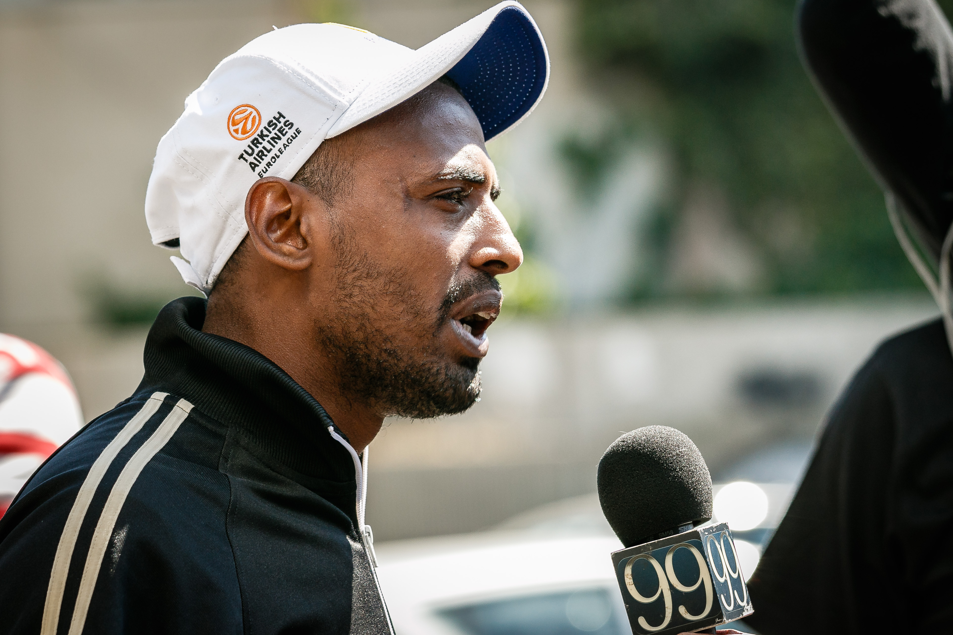 Demonstration of Ethiopian residents in Tel-Aviv, Immigration to Israel